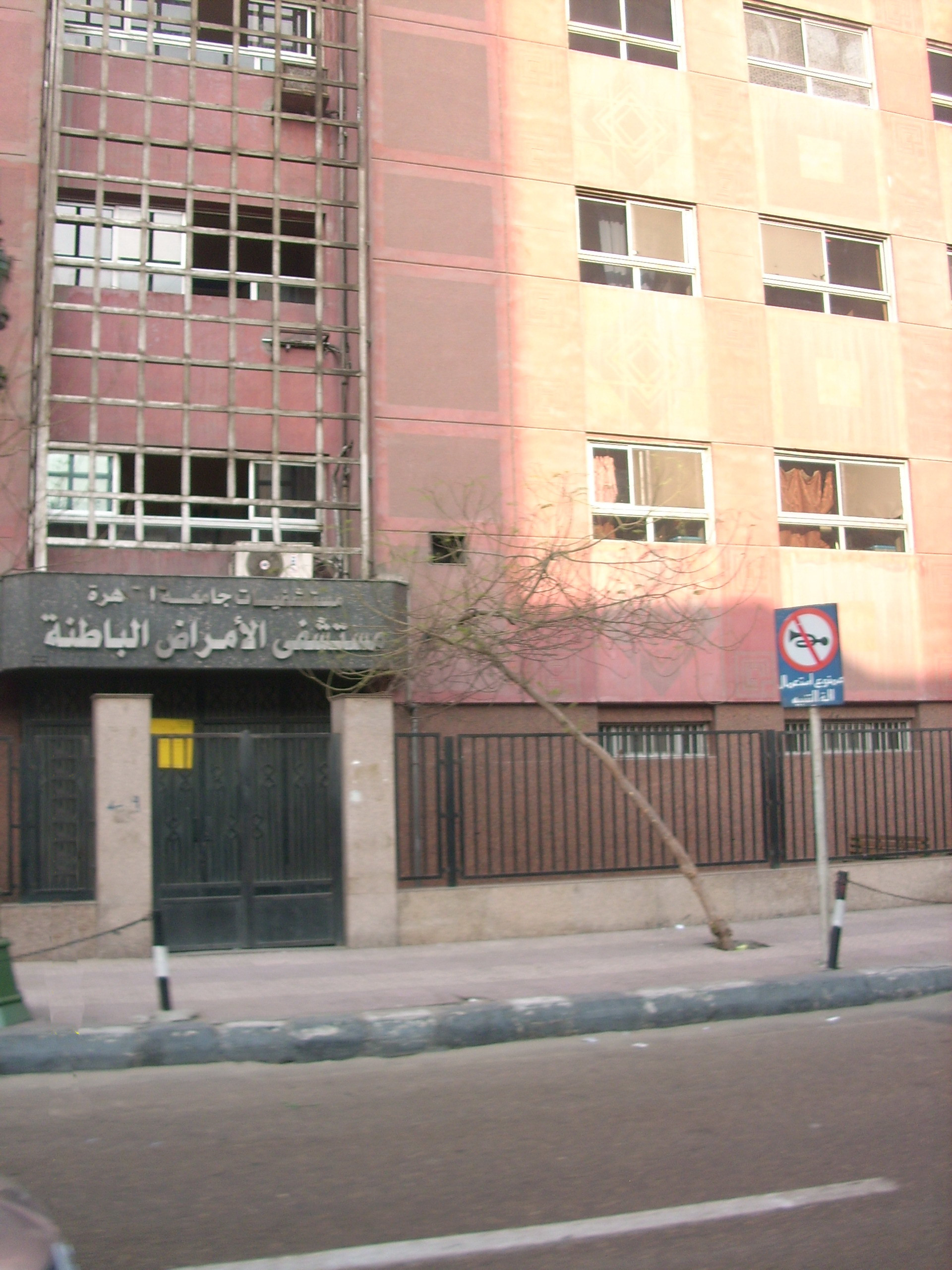 Cairo University - Kasr al-Aini Internal Medicine Hospital